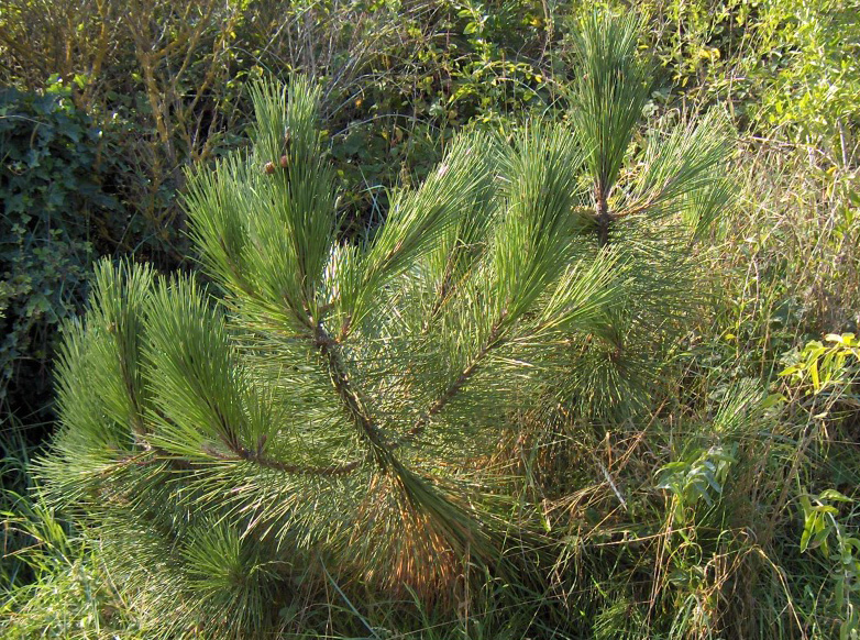 Species Pinus pinaster Family Pinaceae